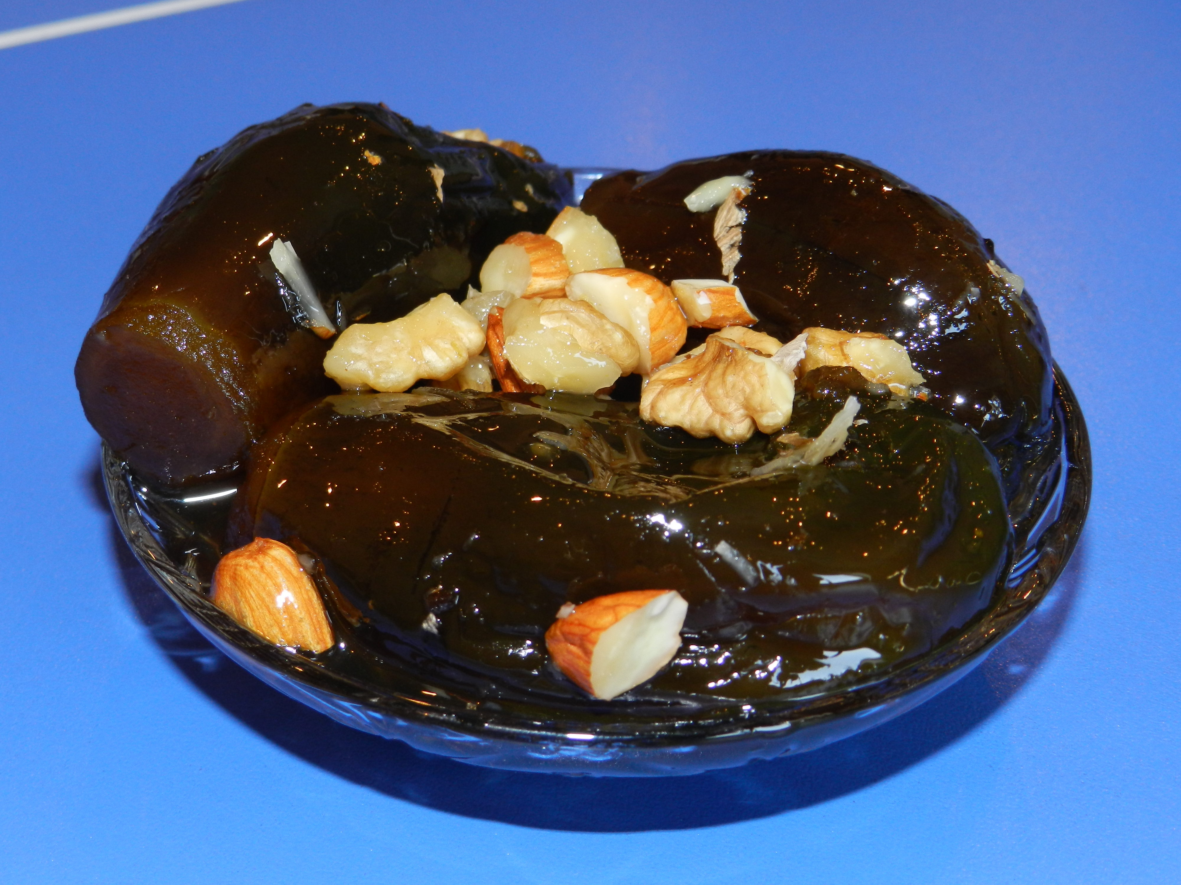 Jam: Eggplant with nuts